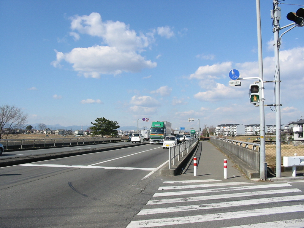 Fujimi-Kawagoe_toll_road(富士見川越有料道路) (Furuichiba, Kawagoe, Saitama prefecture, Japan)